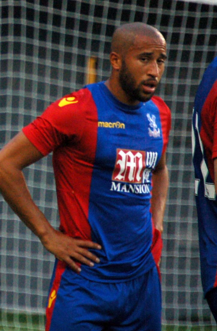 Andros Townsend playing for Crystal Palace against FC Cincinnati at Nippert Stadium, Cincinnati on 16 July 2016